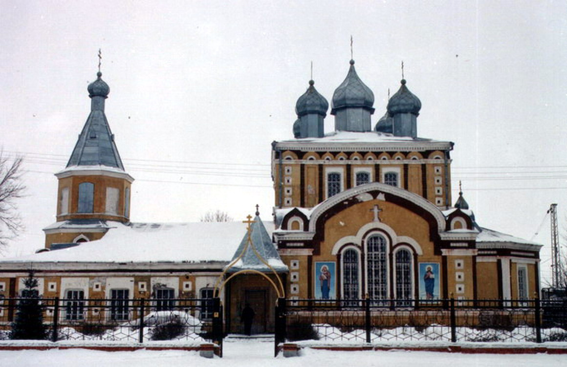 Church of sacred prince Alexander Nevsky (Rtishchevo, 2003)